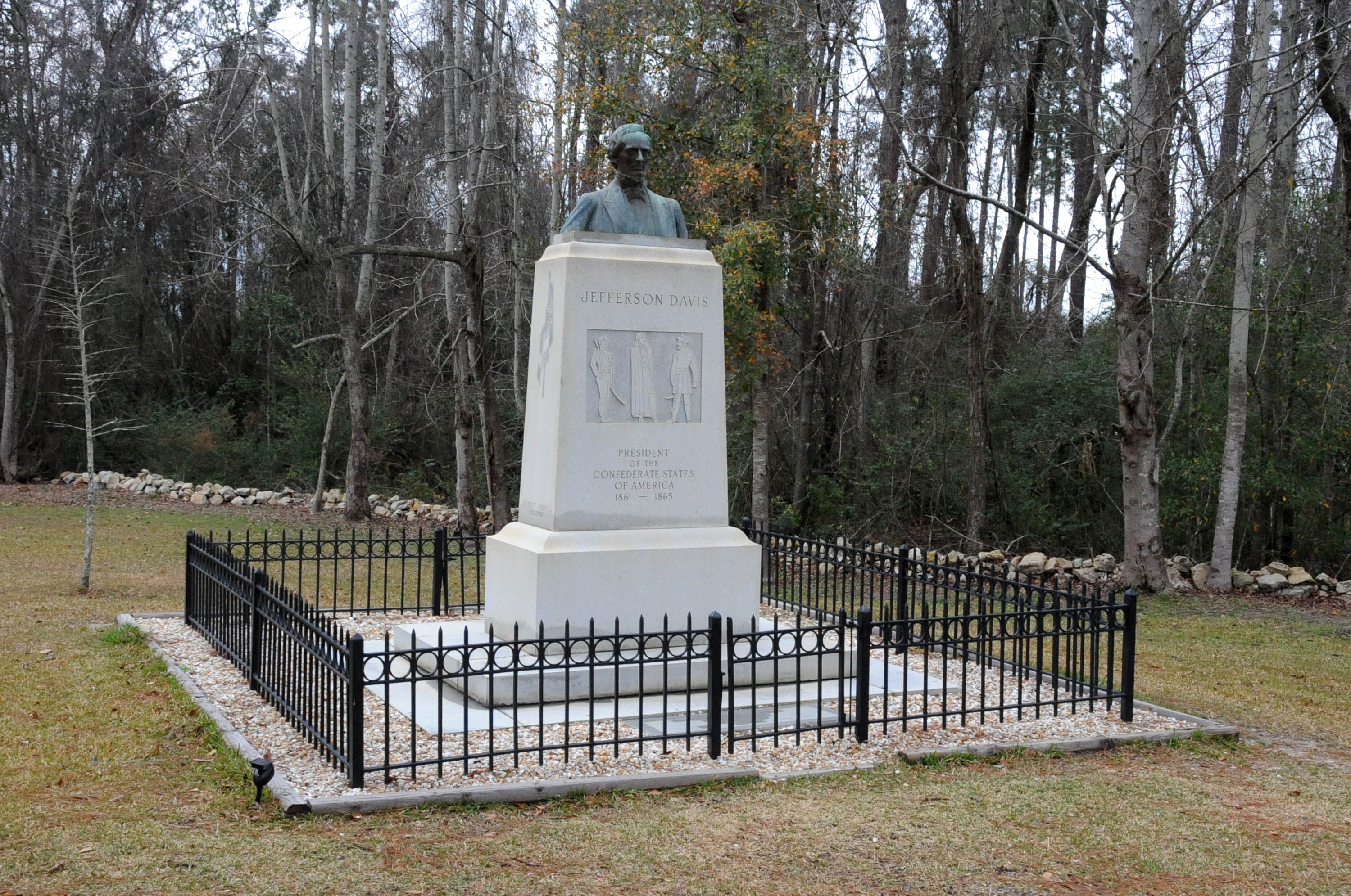 MONUMENT HAS BEEN ERECTED ON THE SPOT WHERE ONCE STOOD AN OAK TREE UNDER WHICH JEFFERSON DAVIS WAS CAPTURED